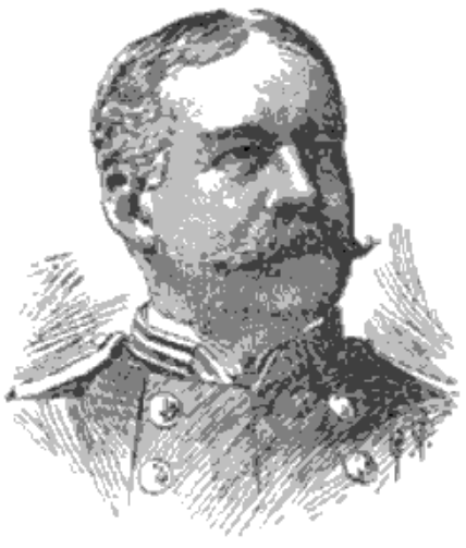 Portrait of Frederick Valette McNair Sr. from The National Cyclopaedia of American Biography, Volume X, 1900, page 255